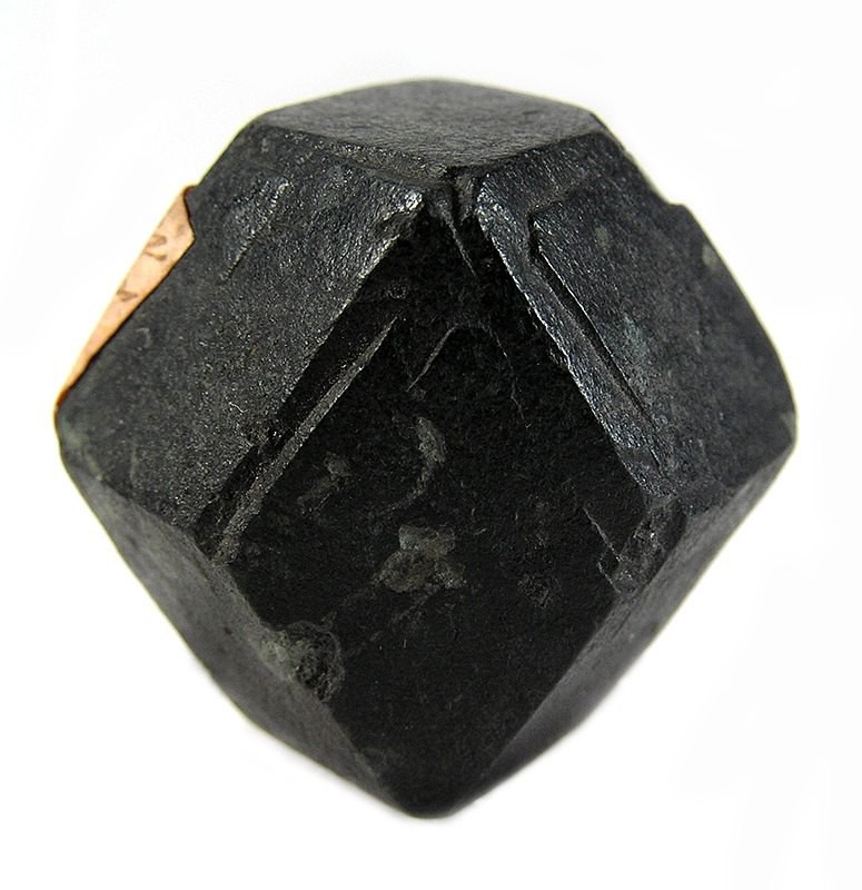 Chlorite, Garnet Locality: Michigamme Mine (Mt Shasta mine), Michigamme, Marquette iron range, Marquette County, Michigan, USA (Locality at ) A well formed, floater, dodecahedron of garnet has been replaced by chlorite. A few nicks are evident, but this is still a neat old specimen. One of the sharpest I have ever seen! 3.5 x 3.1 x 2.7 cm